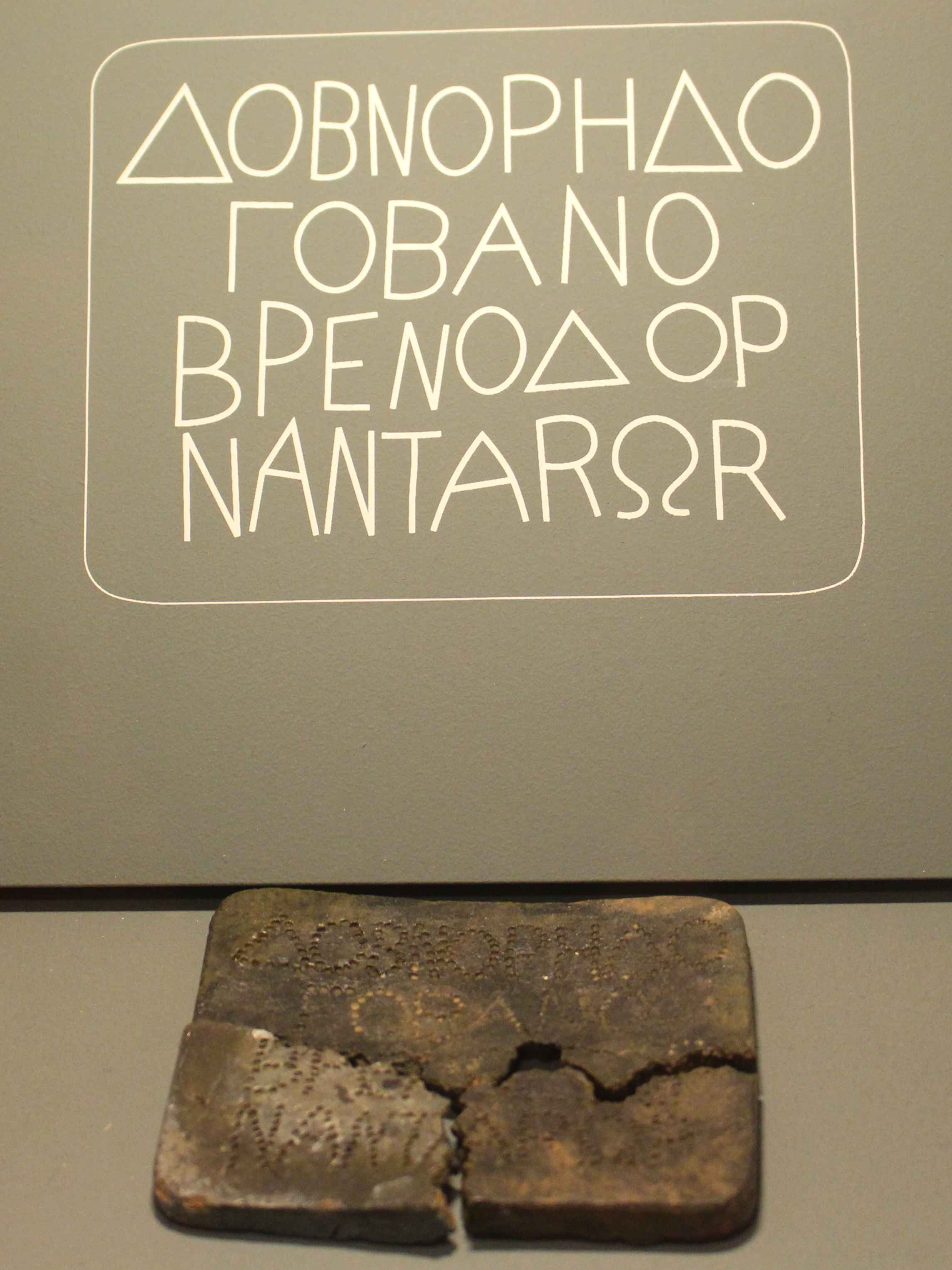 The Bern zinc tablet or Gobannus tablet is a metal sheet found in 1984 in Bern, Switzerland. According to the scant information available, it was found in Thormenboden forest within what appears to be a Gallo-Roman context. It is inscribed with an apparently Gaulish inscription, consisting of four words, each on its own line, the letters formed by little dots impressed onto the metal: ΔΟΒΝΟΡΗΔΟ ΓΟΒΑΝΟ ΒΡΕΝΟΔΩΡ ΝΑΝΤΑΡΩΡ (Dobnoredo Gobano Brenodor Nantaror) The Bern Zinc Tablet is displayed in the Historisches Museum Bern